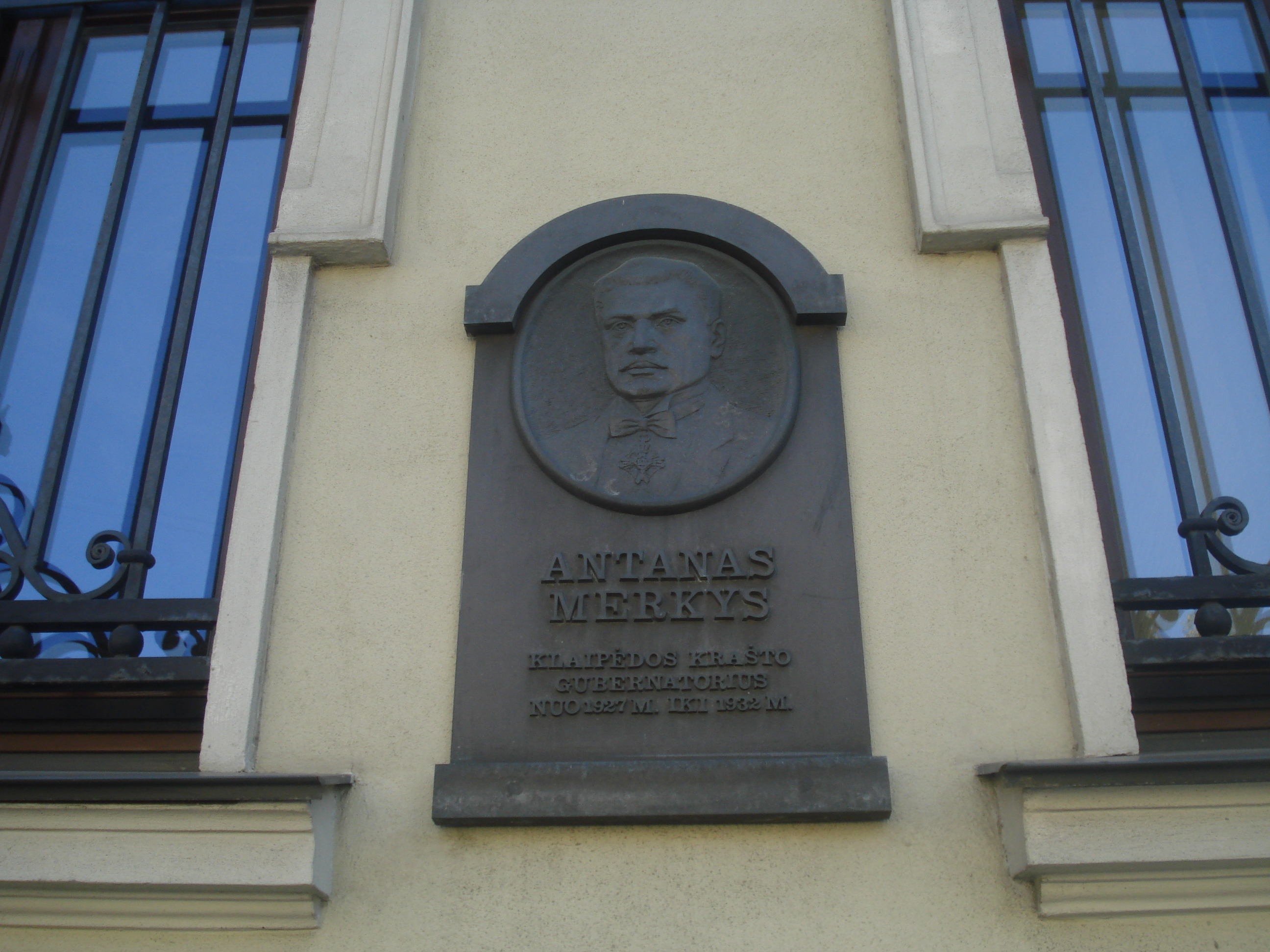 The commemorative plaque in memory of Antanas Merkys, Governor of Klaipėda Region 1927-1932